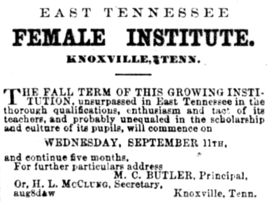 Ad for the East Tennessee Female Institute in an 1872 issue of the Knoxville Chronicle